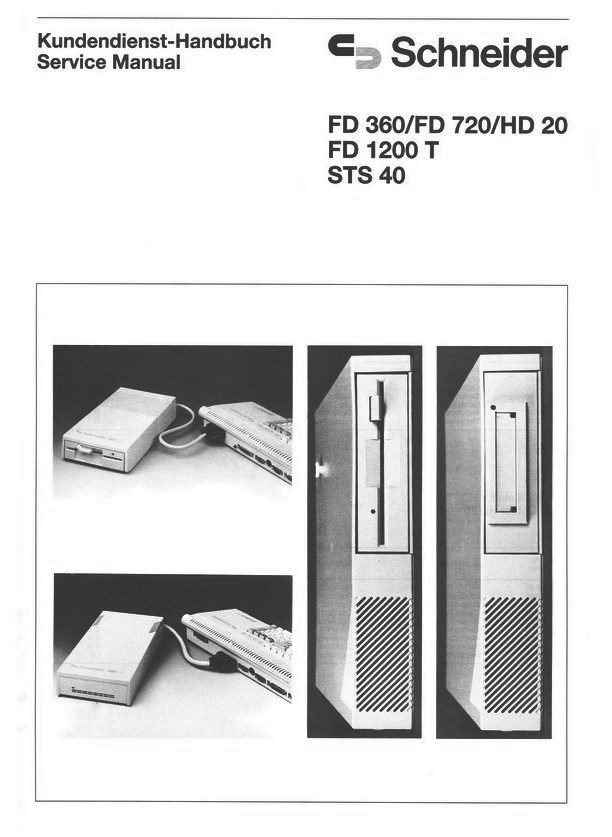 Schneider FD360 Service Manual cover